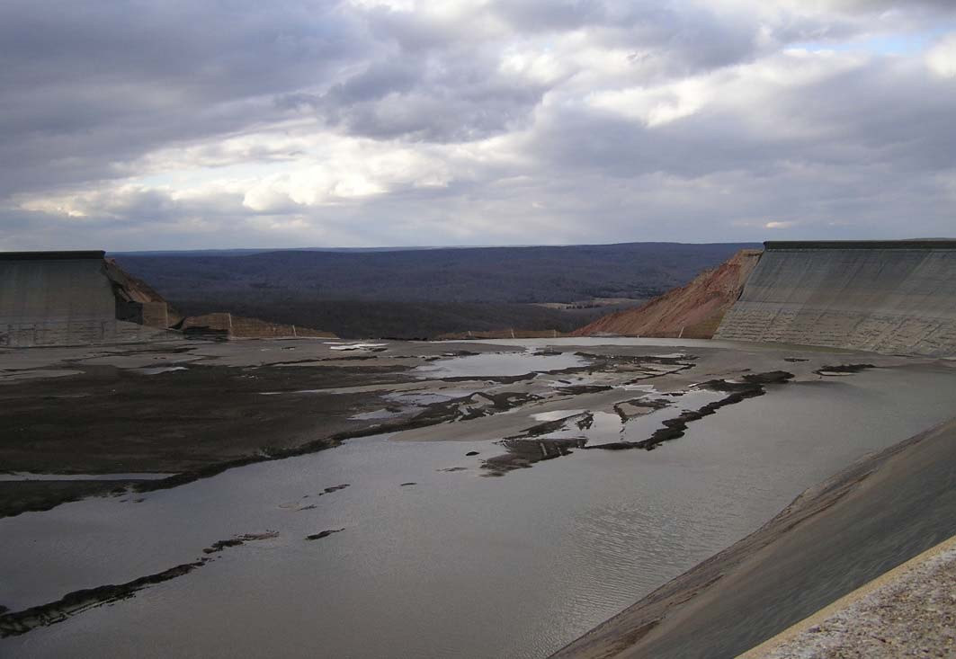 Breach in the Taum Sauk upper reservoir. Source: Federal Energy Regulatory Commission.